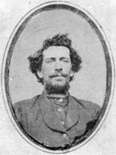 A picture of William T. Anderson, taken in 1864 in Sherman, likely for his wedding.